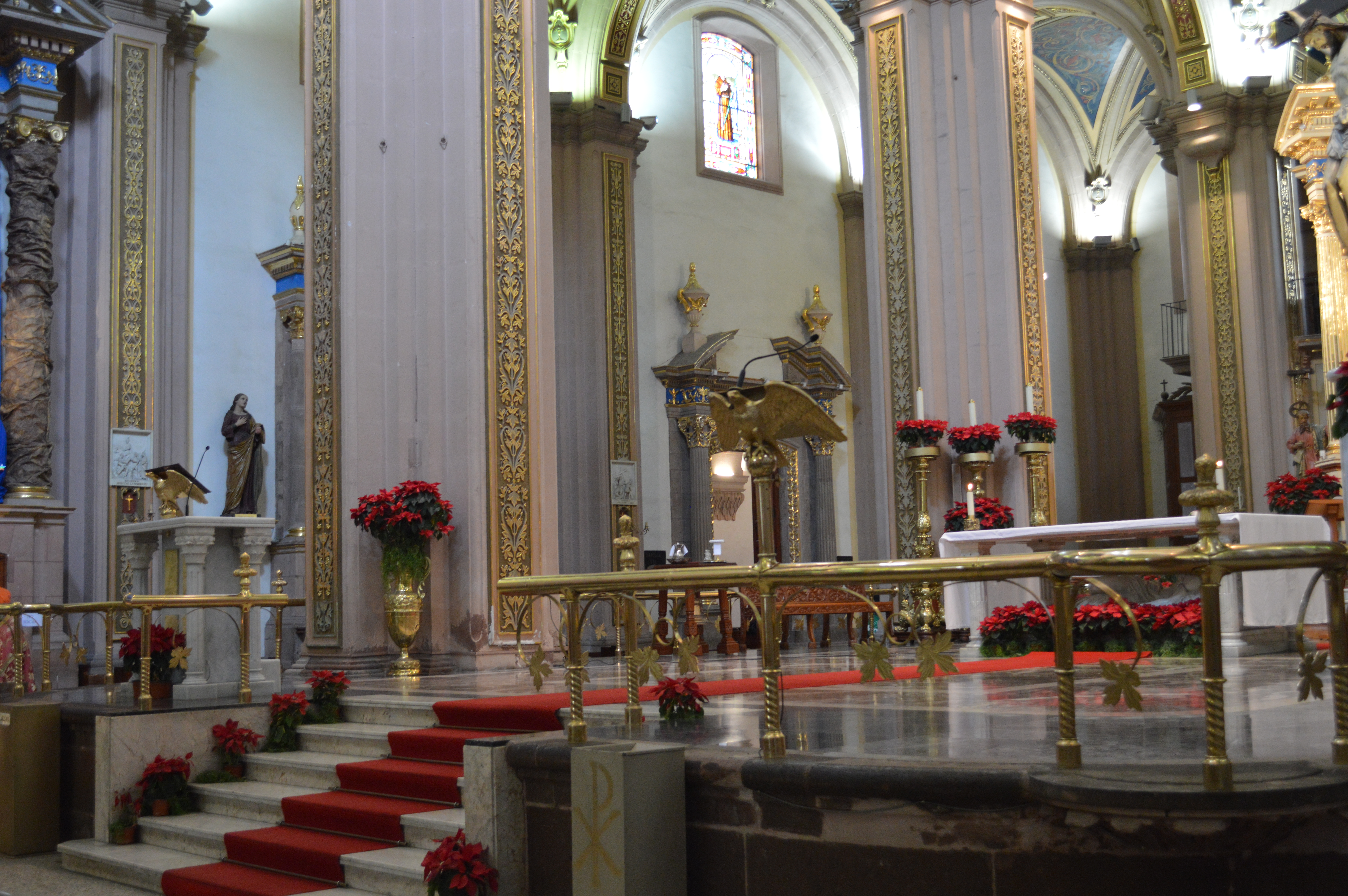 Cathedral of San Luis Potosi, Mexico